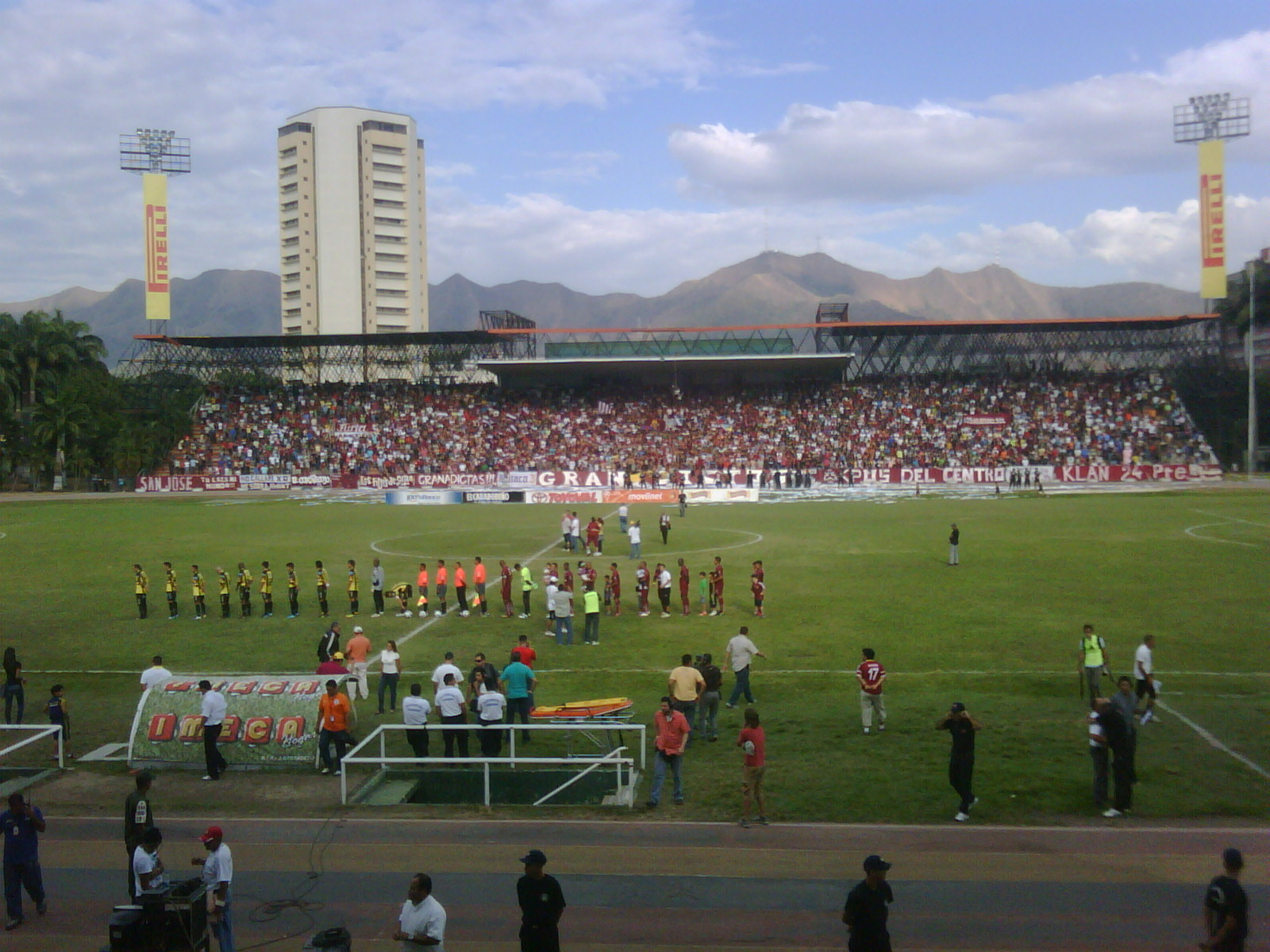 Misael Delgado Stadium during the game Carabobo FC vs Deportivo Táchira